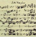 Christoph Willibald Gluck anuscript